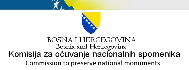 Logo used by the Commission to preserve national monuments of Bosnia and Herzegovina